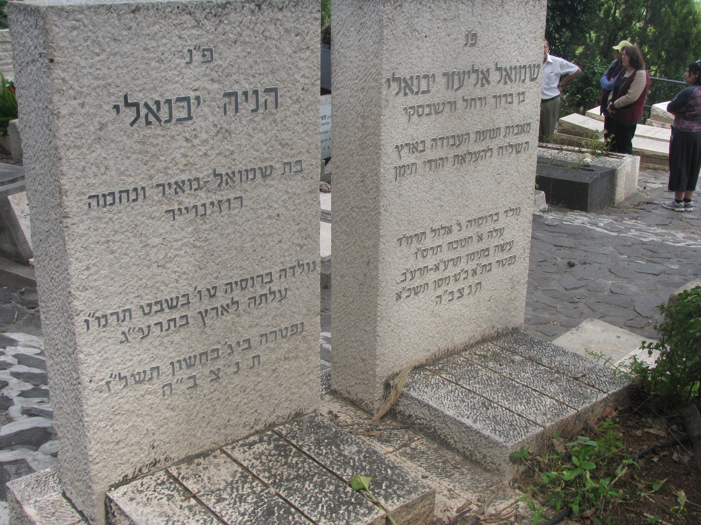 Burial place of Samuel Yavnieli and his wife Henya